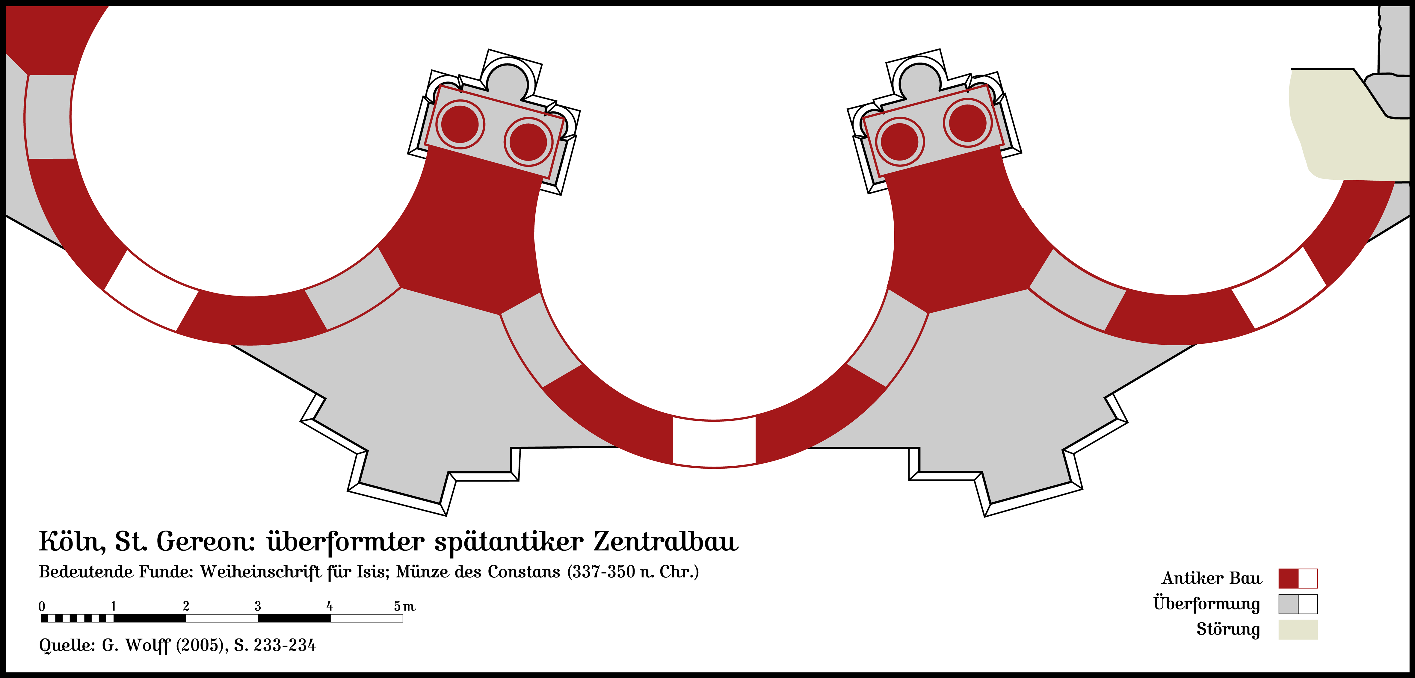 Cologne, St. Gereon: Late Antique reshaped central building. Even up to 16.50 meters get high.